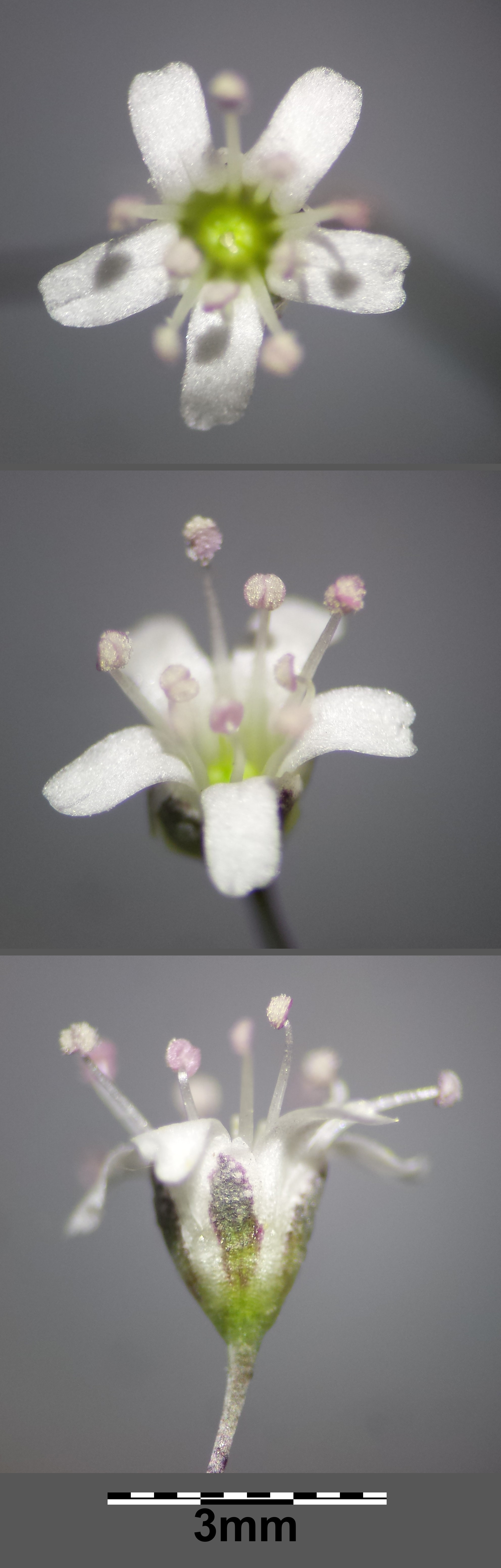 Flower Taxonym: Gypsophila paniculata ss Fischer et al. EfÖLS 2008 ISBN 978-3-85474-187-9 Location: border of an abandoned sand pit near Tresdorf, district Korneuburg, Lower Austria - ca. 200 m a.s.l. Habitat: dry grassland on sand (Korneuburg formation)